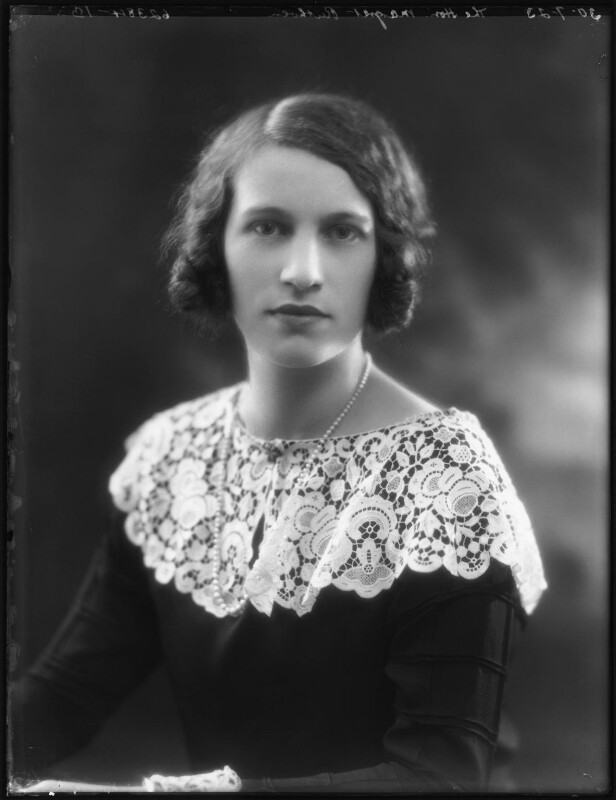 Hon. Margaret Leslie Davies (née Ruthven) by Bassano Ltd whole-plate glass negative, 30 July 1923 Given by Bassano & Vandyk Studios, 1974 Photographs Collection NPG x122625